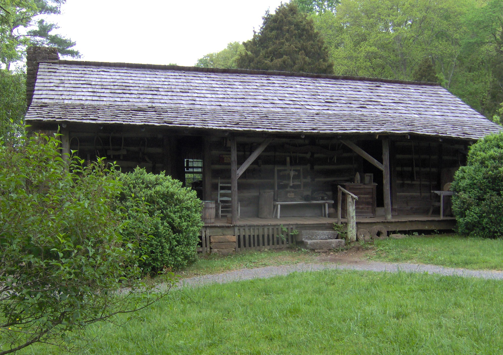 The General Bunch House at the Museum of Appalachia in Norris, Tennessee, USA. This house, originally located in the New River section of Anderson County, Tennessee, was built by Pryor Bunch (1852-1931) and family around 1898. Museum founder John Rice Irwin obtained the cabin from Pryor's son, General, in the 1960s.